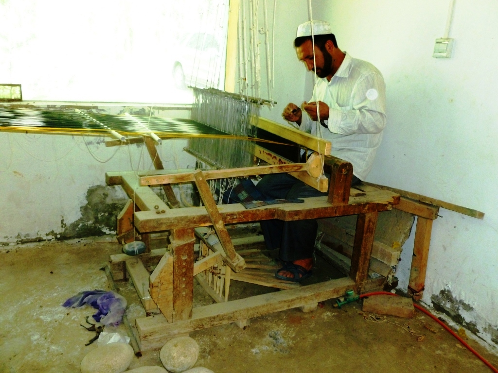 photo taken at a home factory in Khotan